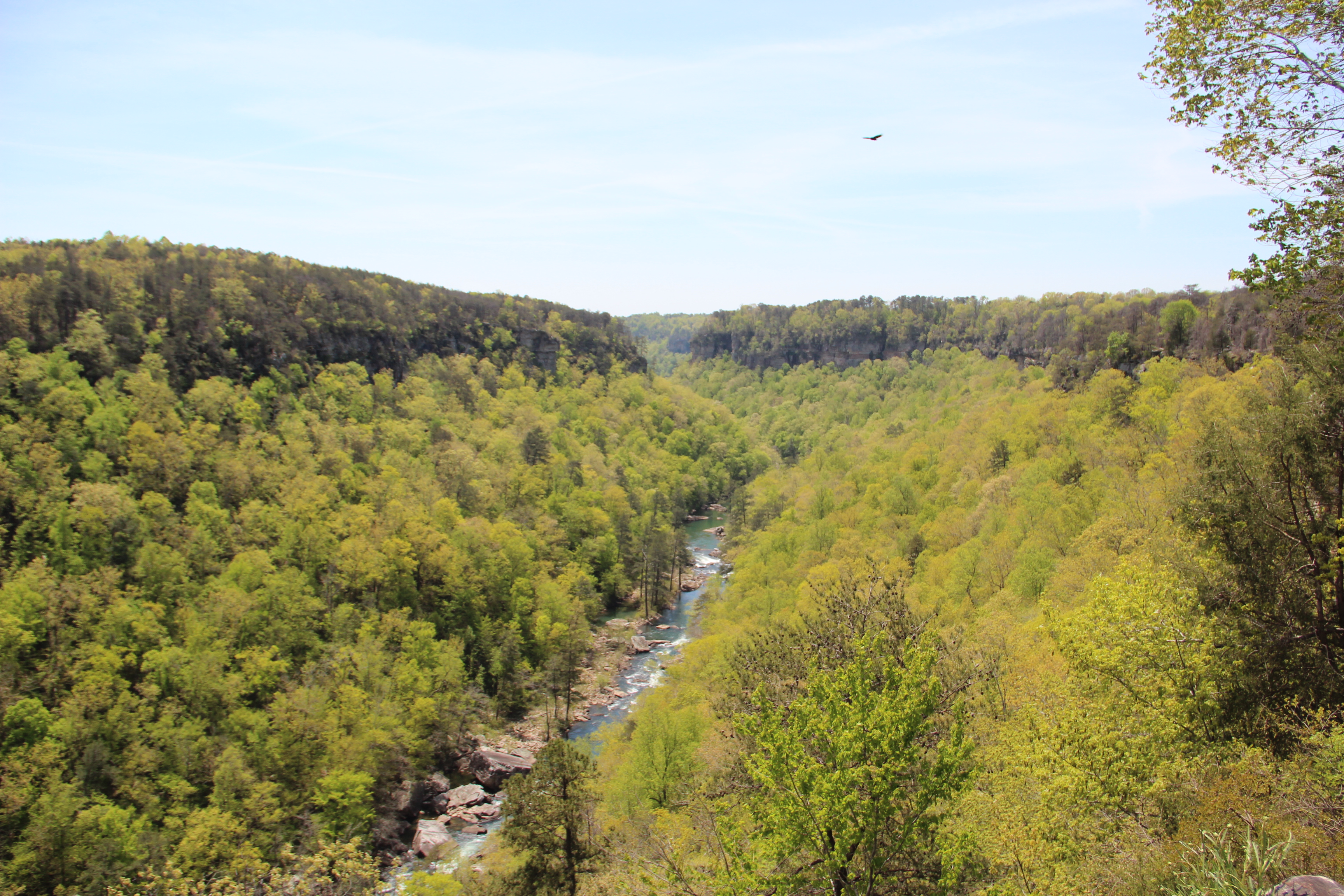 Little River Canyon from Wolf Creek Overlook